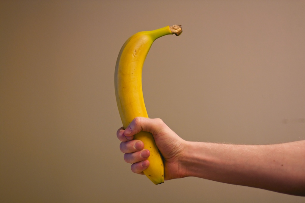 A rather large example of a Cavendish banana.